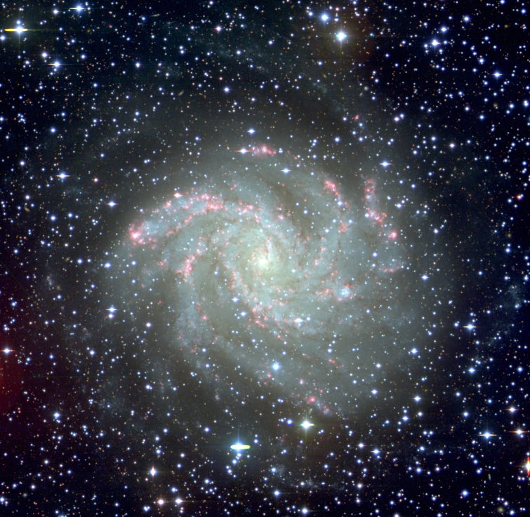 constructed by Renseb, images of the individual colours were taken with the Isaac Newton Telescope on La Palma and the WIYN 0.9m telescope on Kitt Peak.